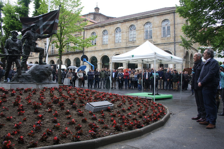 Monument to the gudaris, Basque anti-francoist soldiers, in Gernika. Inauguration day.